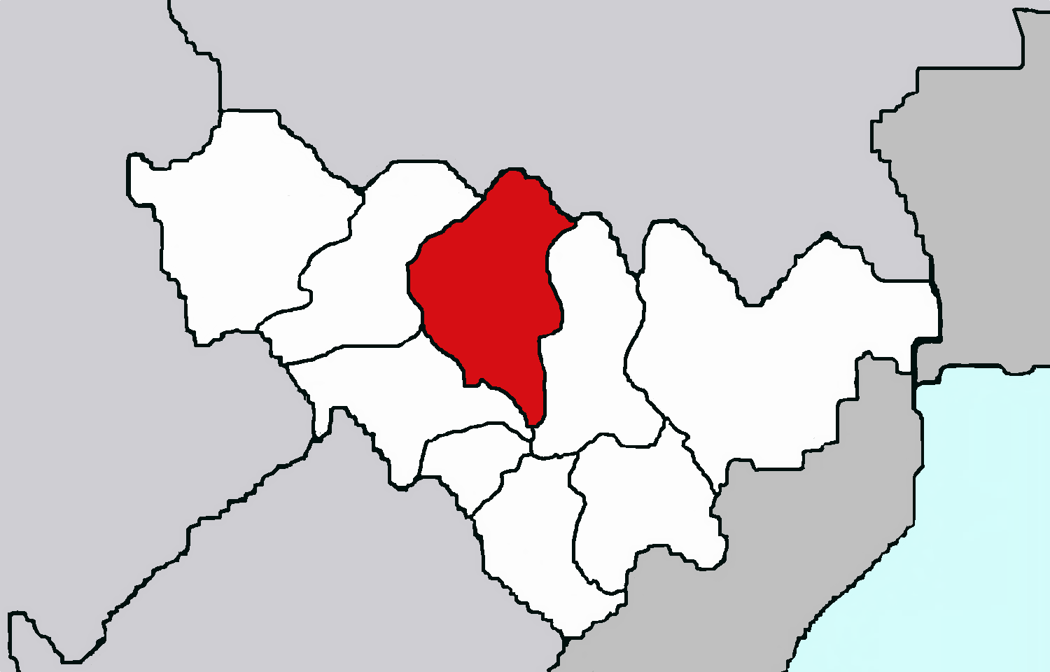 Maps of Jilin Province , China